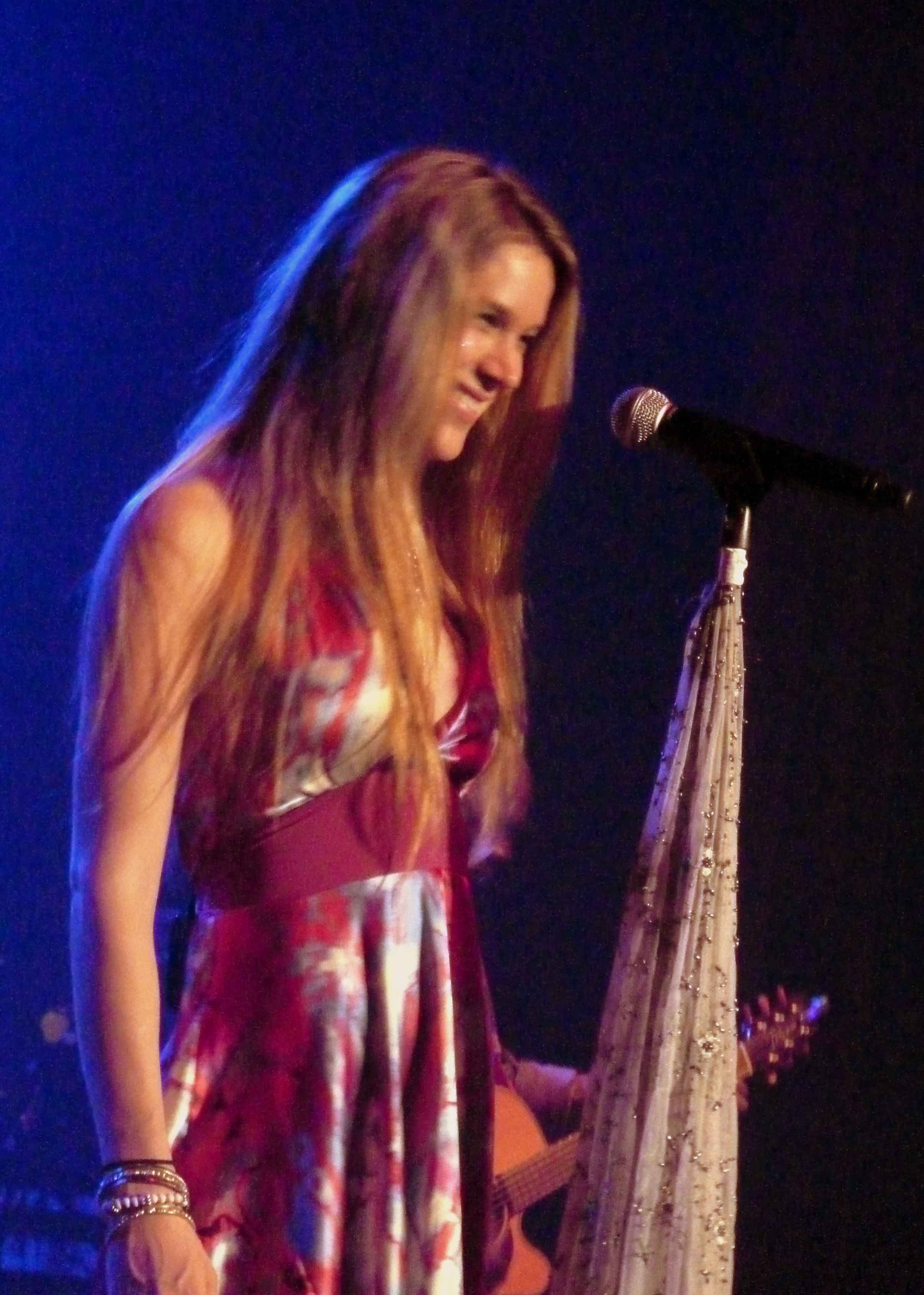 Joss Stone at the Royal Oak Music Theater, Detroit 10/6/12